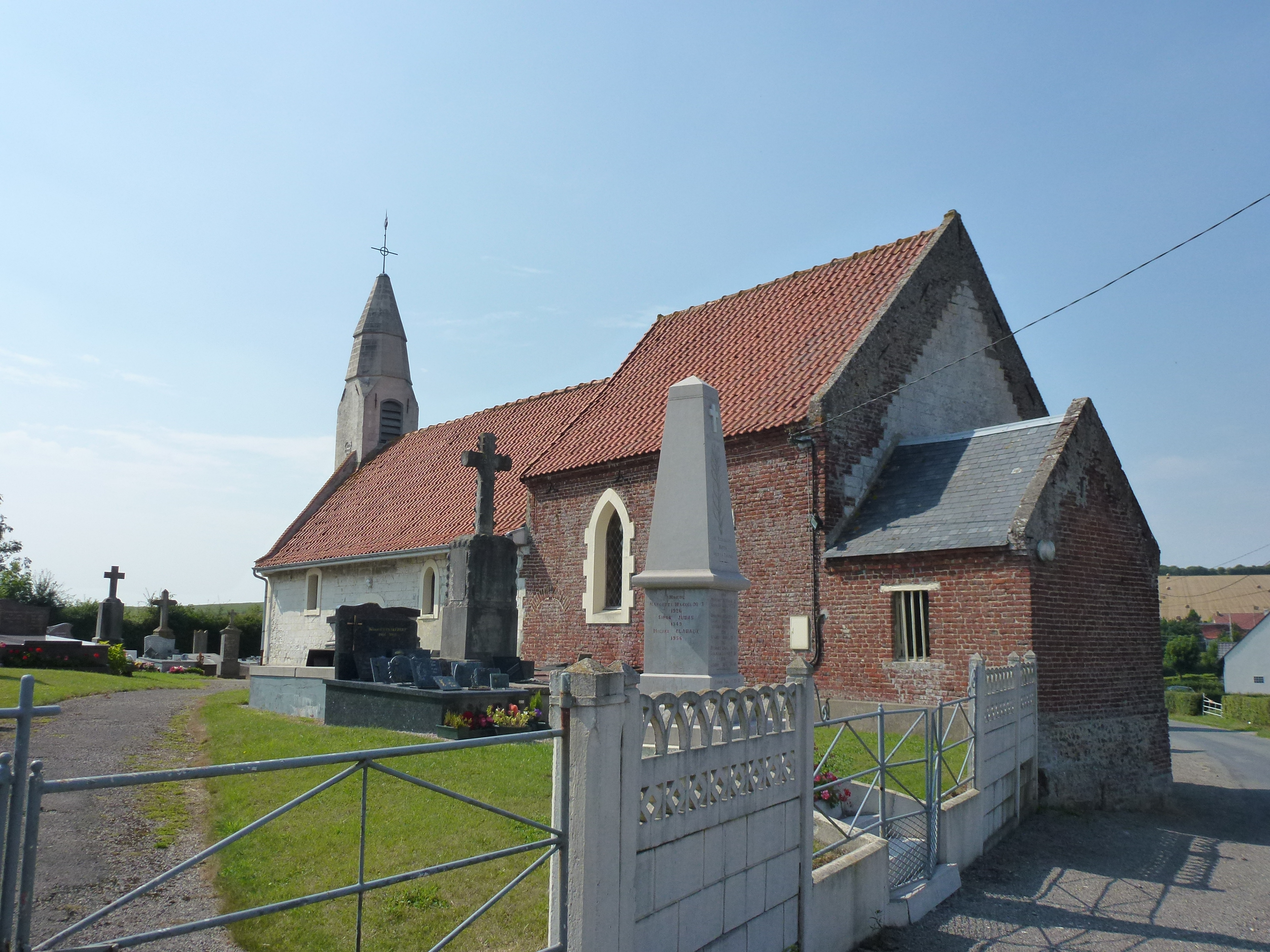 Rebergues (Pas-de-Calais) église Saint Folquin